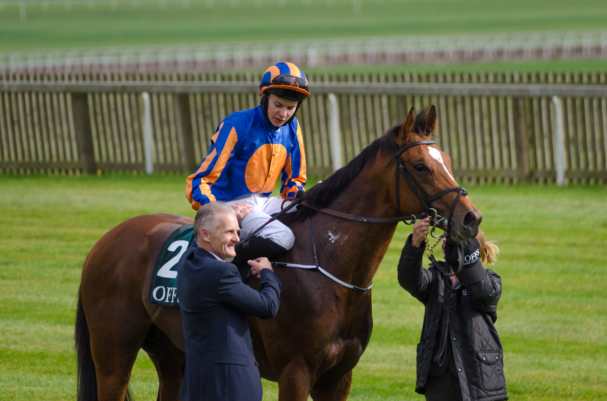 Curragh, Irish Champions Weekend